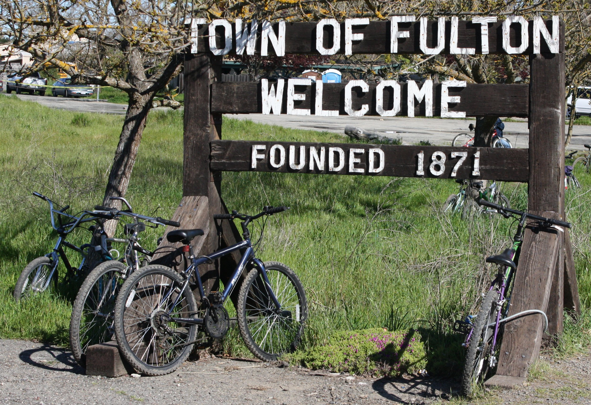 Fulton welcome sign, Fulton, Sonoma County, California